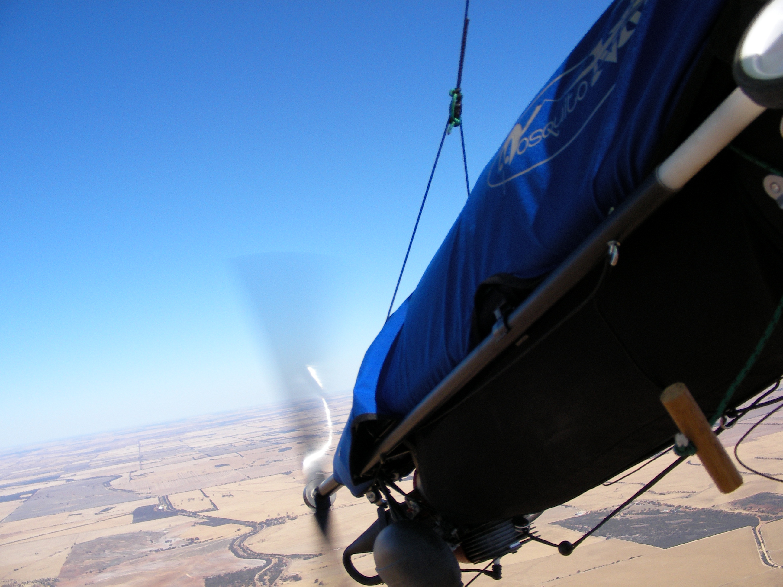 The engine and propeller project out behind the normal hang gliding harness immediately behind the pilot's feet